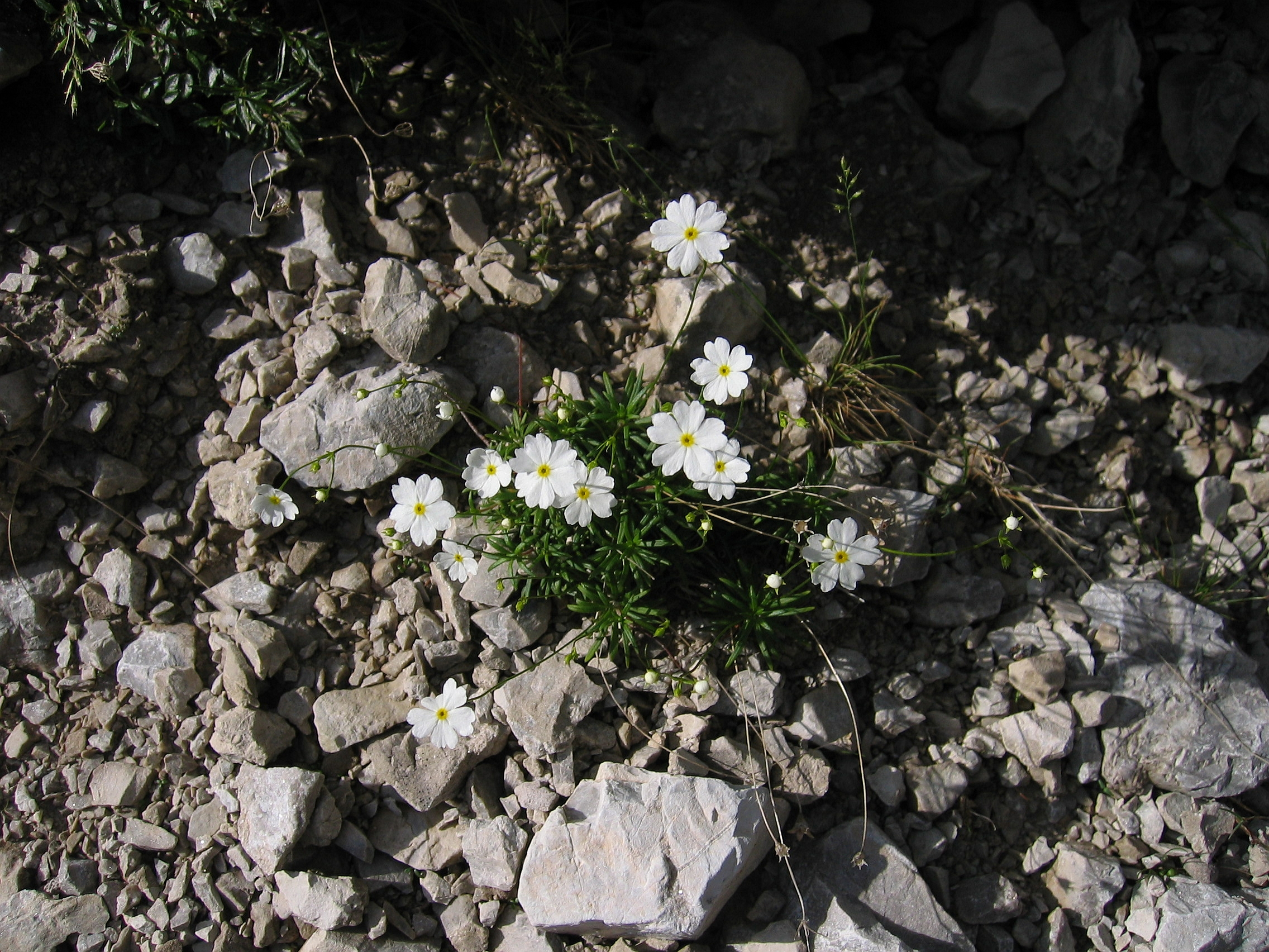 Androsace lactea, Hinterstoder, Upper Austria, Austria